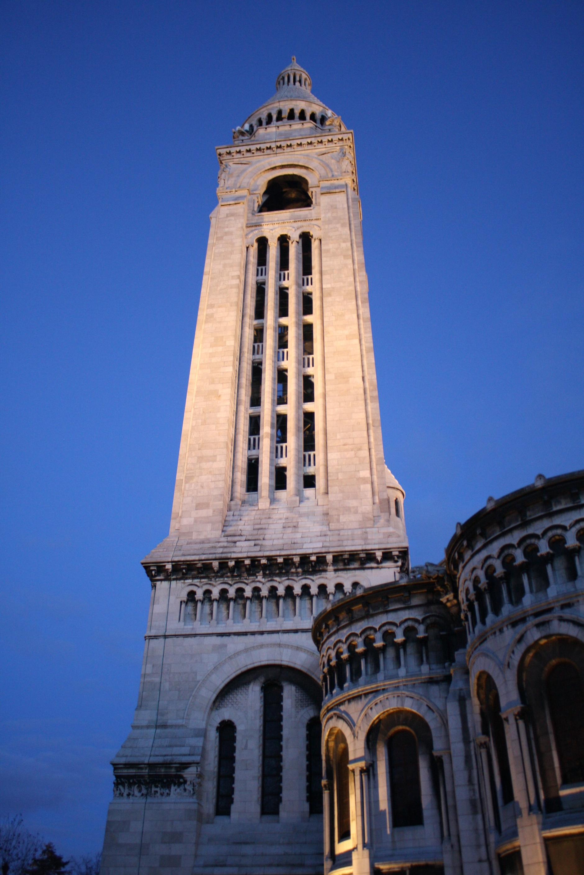 The bell tower of Sacré-Cœur de Montmartre.